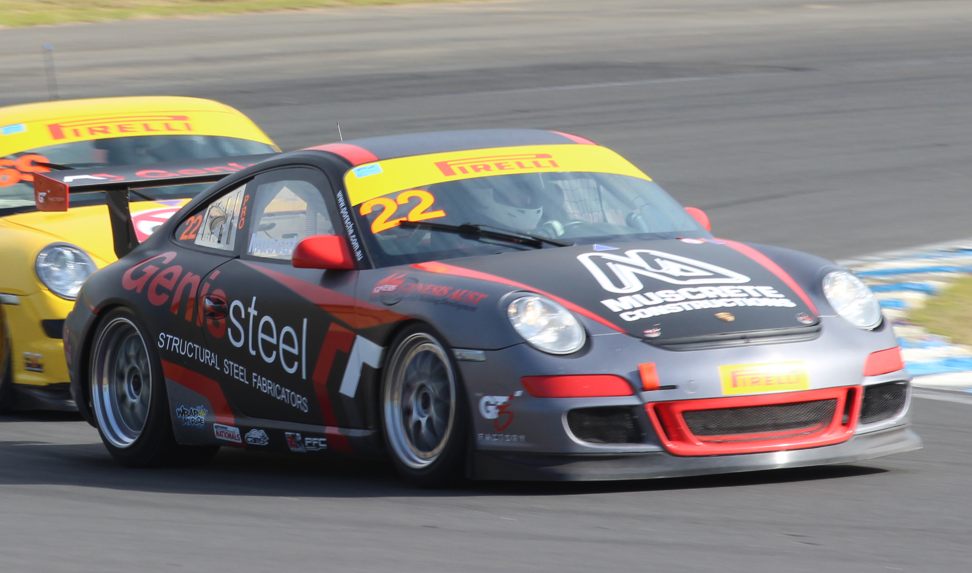 2013 Porsche GT3 Cup Australia champion Richard Muscat at Sydney Motorsport Park.